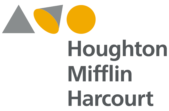 Houghton Mifflin Harcourt logo, launched in 2012.